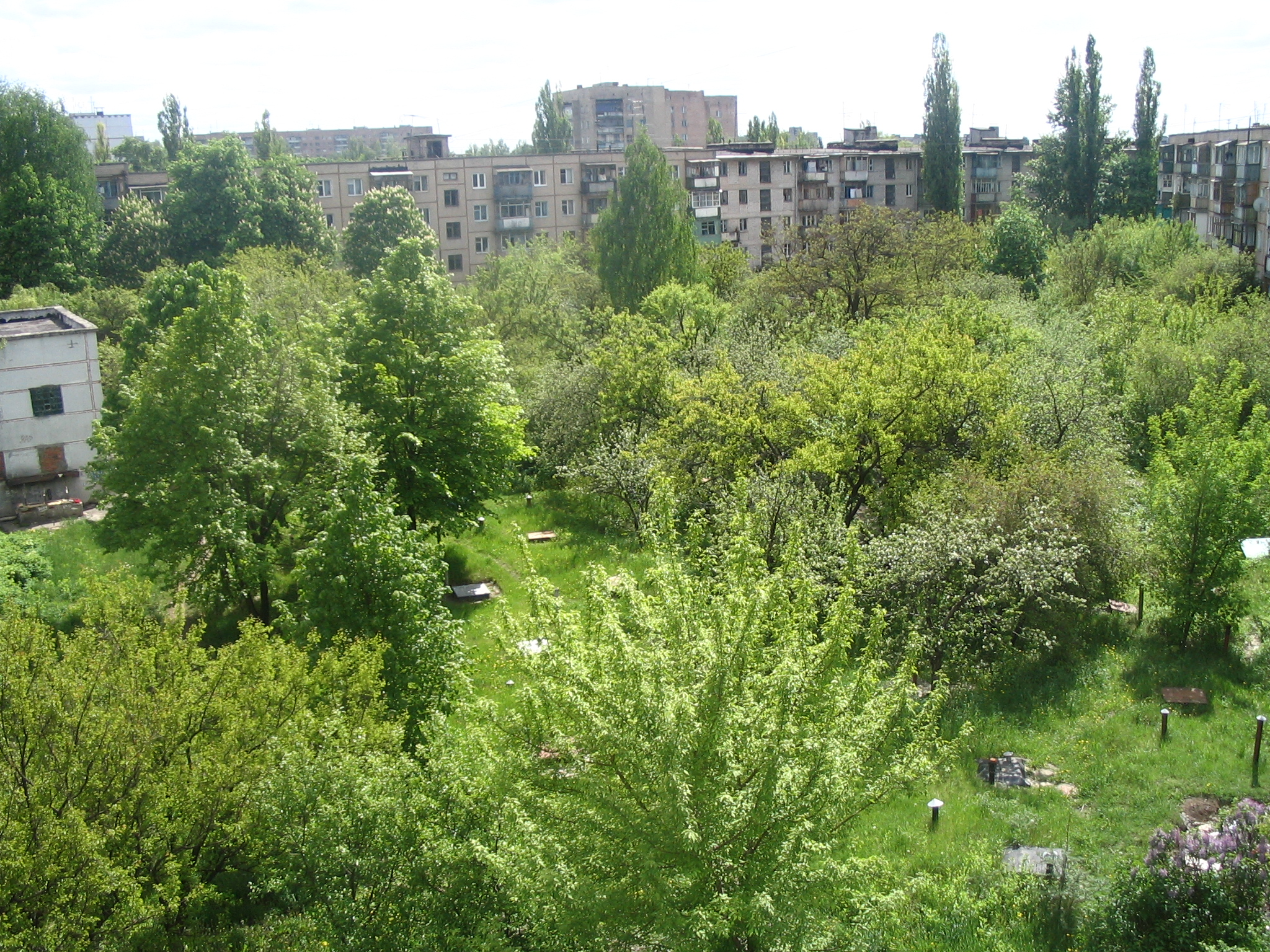 5-storeyed blocks of flats in New Houses district (Kharkiv, Ukraine)